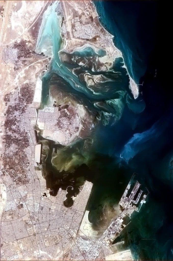 "Tarout Bay, Saudi Arabia, looks powerfully unnatural and purposeful from orbit." Caption by astronaut Chris Hadfield on board the International Space Station. Visible here is Tarout Bay, including northeast Dammam, Saihat, Qatif, Tarout, and Ras Tanura ISS Crew Earth Observations: ISS034-E-053513IdentificationMissionISS034 (Expedition 34)RollEFrame053513Country or Geographic NameSAUDI ARABIACameraCamera Focal Length400 mmCameraNIKON D3SQualityPercentage of Cloud Cover0-10%Nadir What is Nadir?Date2013-02-24Time08:23:08